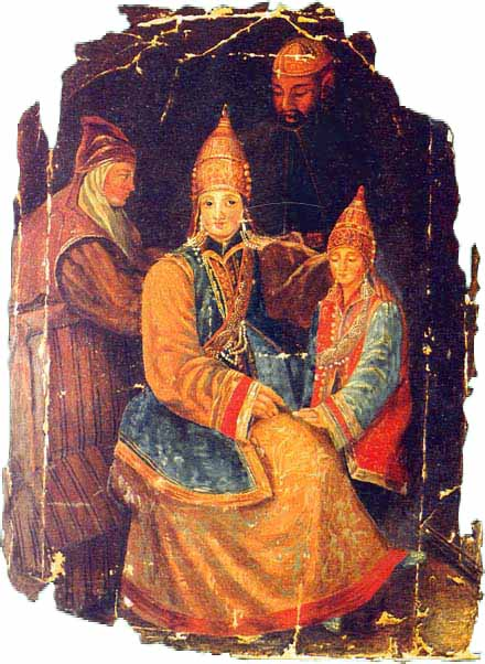 Original portrait of Söyembikä of Kazan by unknown painter, 16th century.